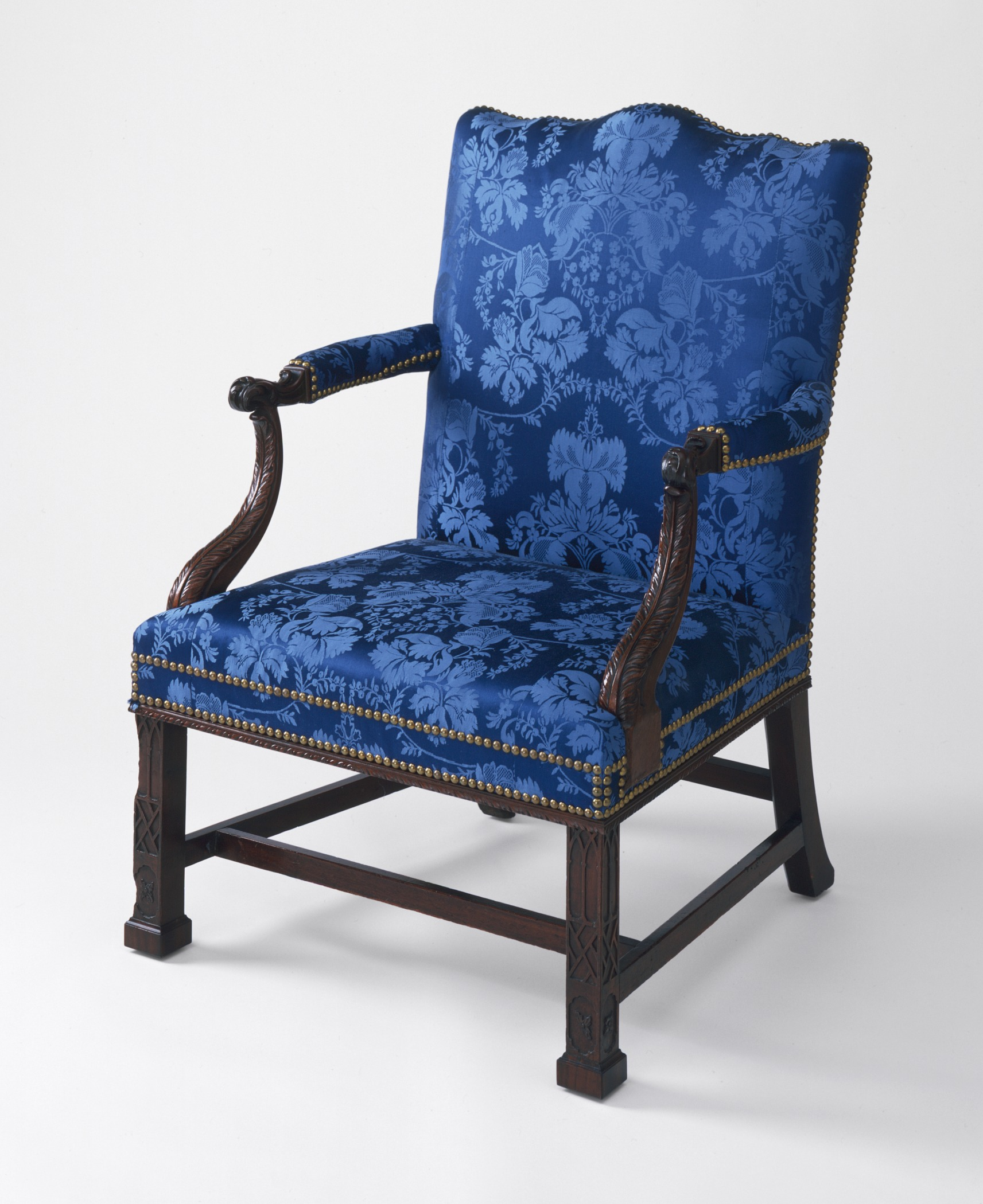 United States, Philadelphia, 1765-1775 Furnishings; Furniture Mahogany, white oak, upholstery (replaced) 40 3/4 x 29 3/4 x 29 1/2 in. (103.51 x 75.57 x 74.93 cm) Gift of Alice Braunfeld in honor of the museum's twenty-fifth anniversary (M.2001.75.1) Decorative Arts and Design Currently on public view: Art of the Americas Building, floor 3